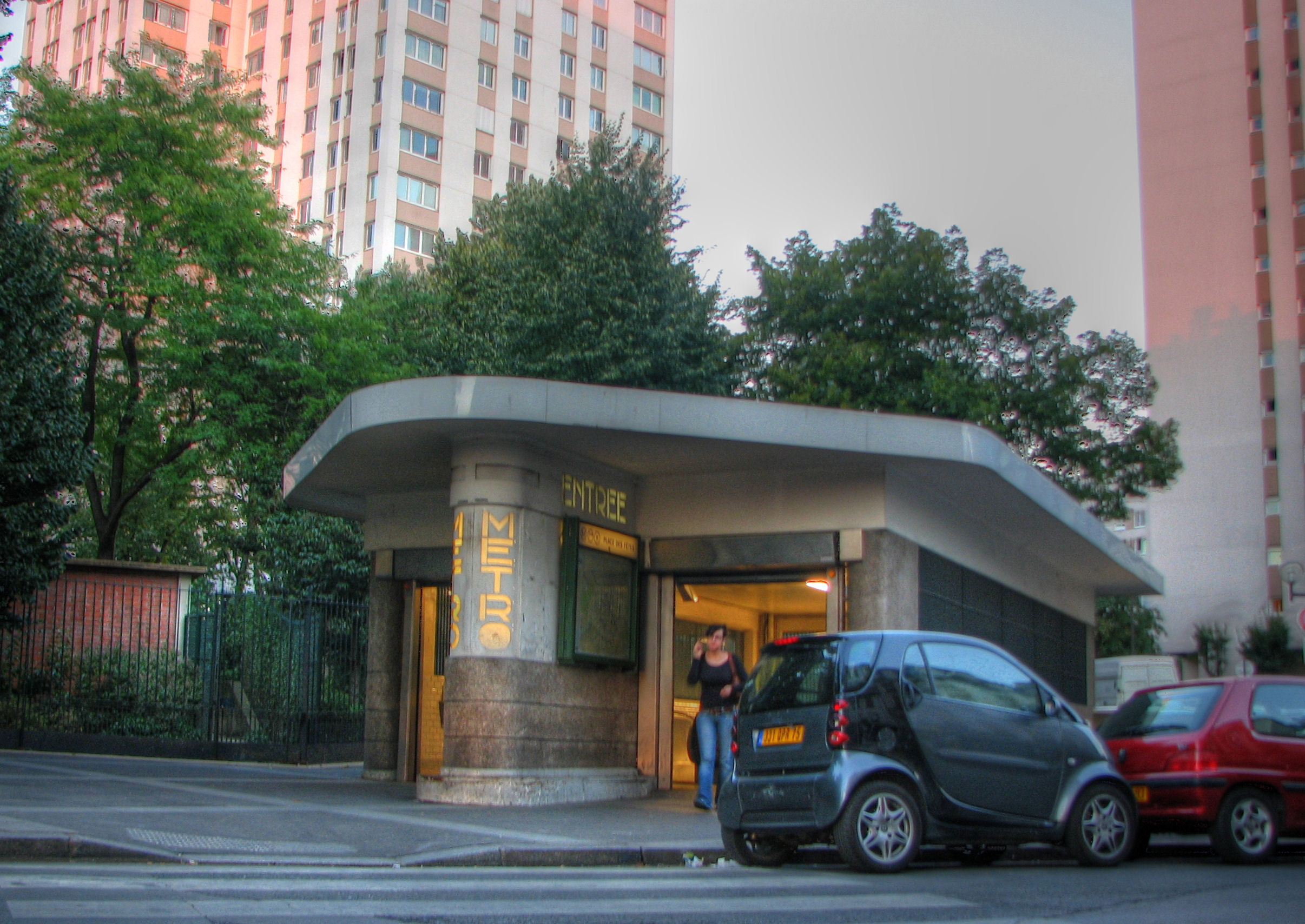 The entry of the metro station "Place des fêtes" of the Parisian metro system